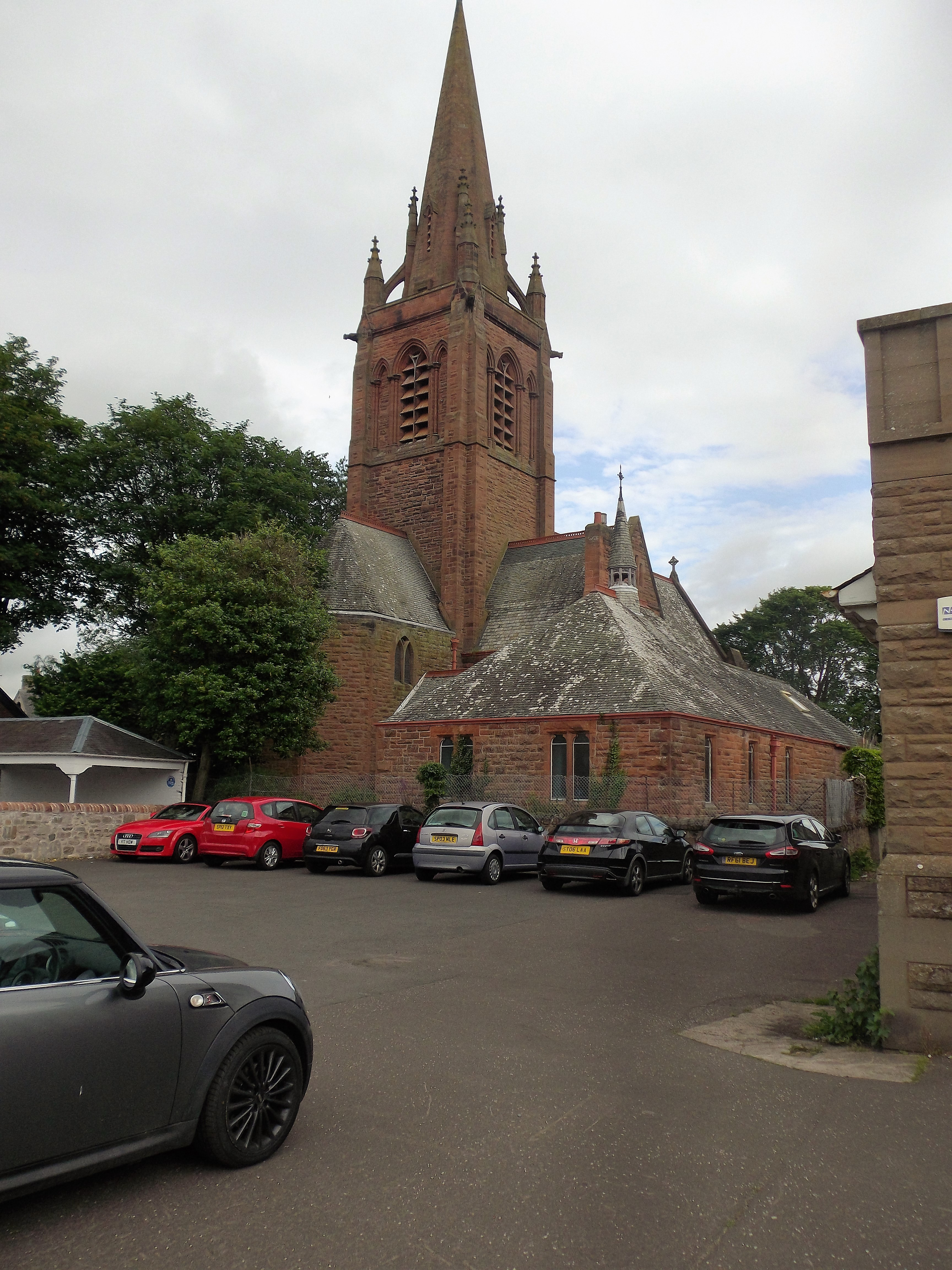 Church with spire, Invergowrie